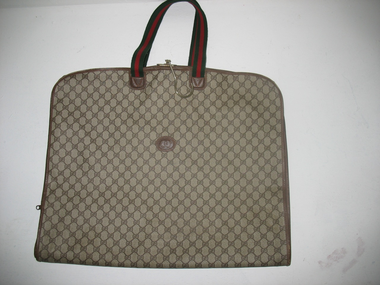 Gucci serial no. 011.20.00036 -2 interior hangers -Gold Gucci label inside -2 green and red striped handles Starting Bid: $75.00 Auction Closes On:08/27/2006 at 05:00 PMEST Link for this item Bid on this item and hundreds more at All proceeds help us continue the fight against HIV/AIDS and homelessness